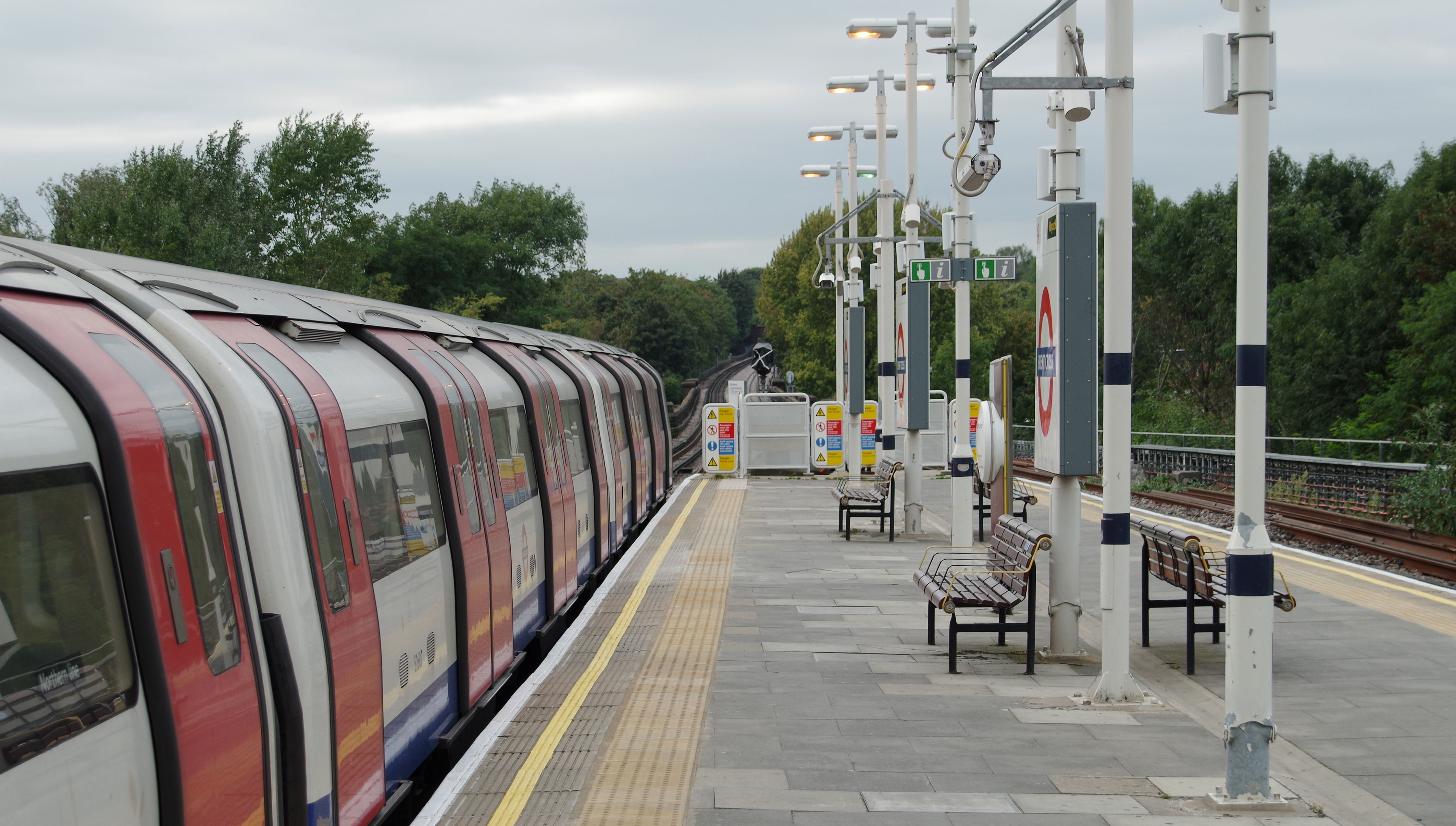 A Northern Line 1995 Stock train departs Brent Cross tube station, working the N155 service to Edgware.